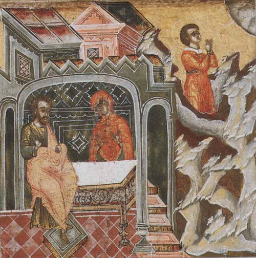 Phillip leaves the parental house